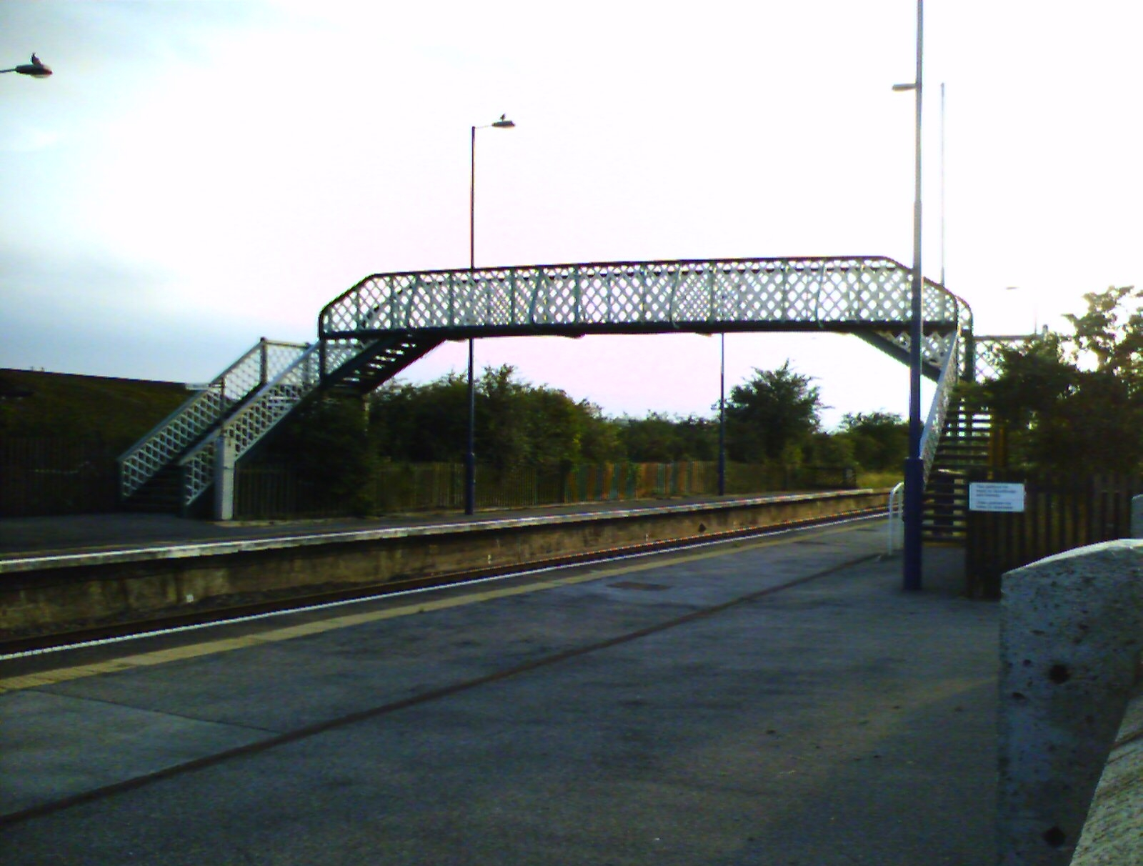 Althorpe railway station. Photo by E Asterion u talking to me?